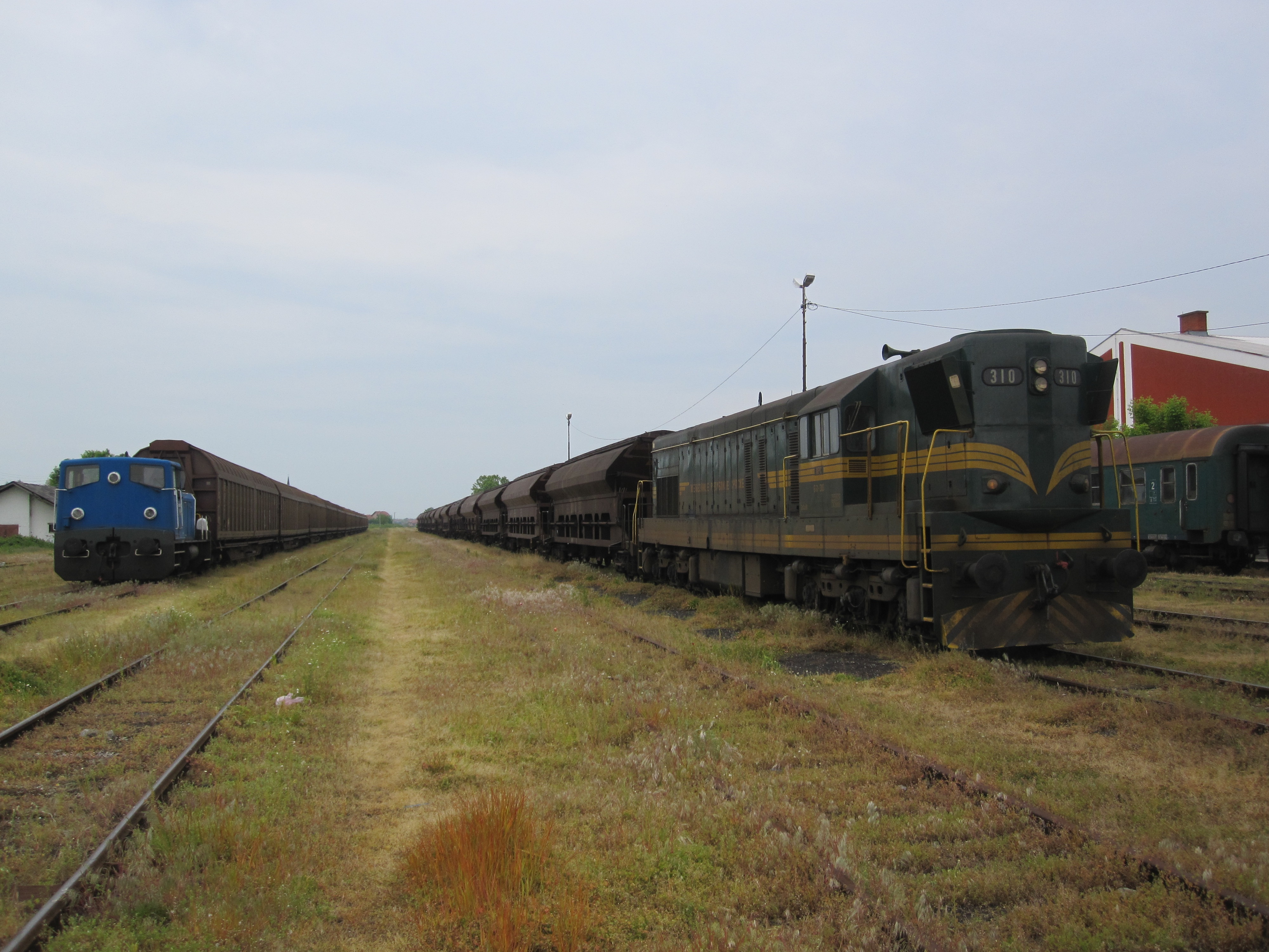 This route is quite an important freight corridor with the line into Croatia still open. The depot at Tuzla has several 661s allocated and an ex-ÖBB shunter assists in the yard at Brčko.